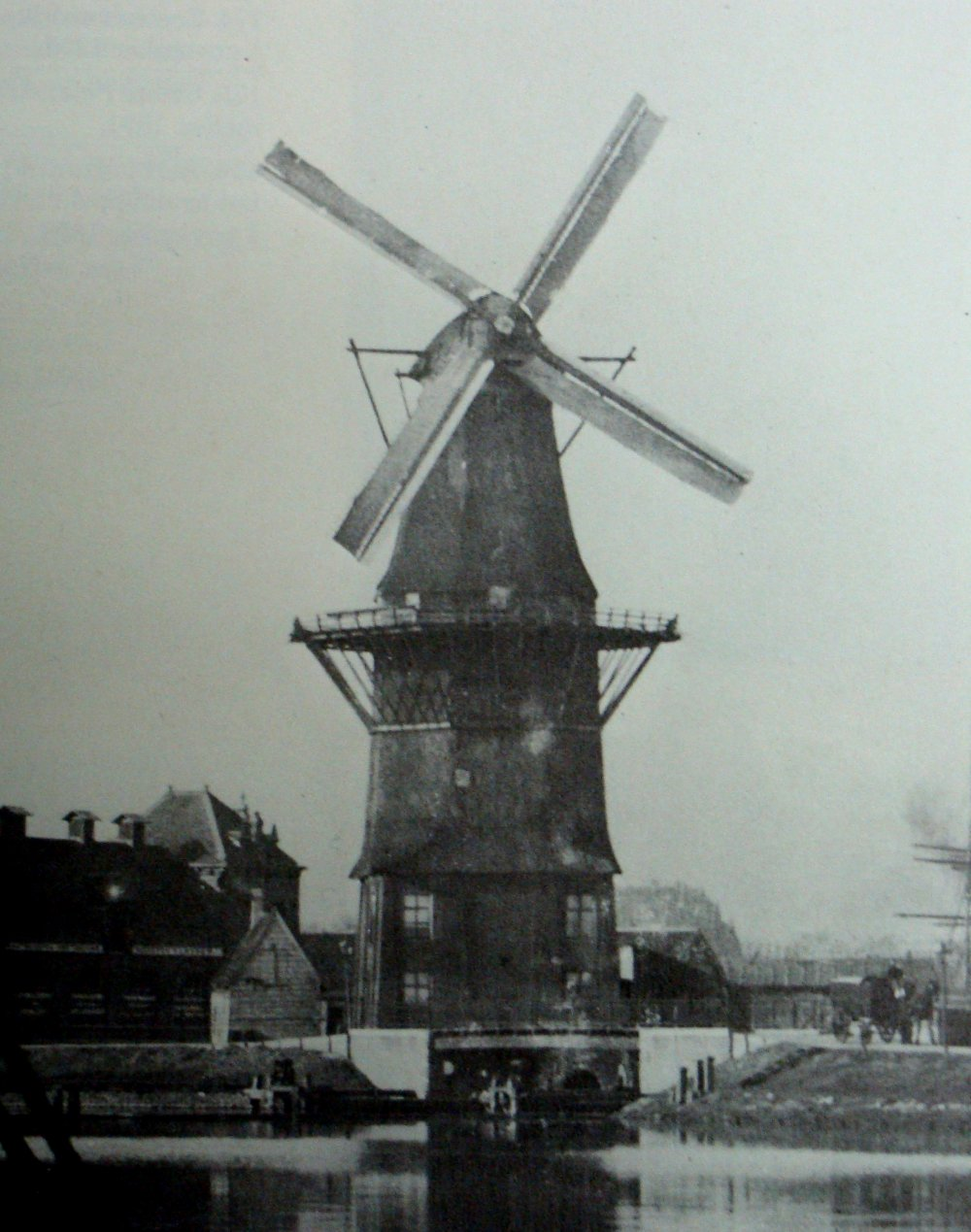 Photograph by Jacob Olie of the windmill "De Gooyer" in Amsterdam, taken on 1 November 1896.